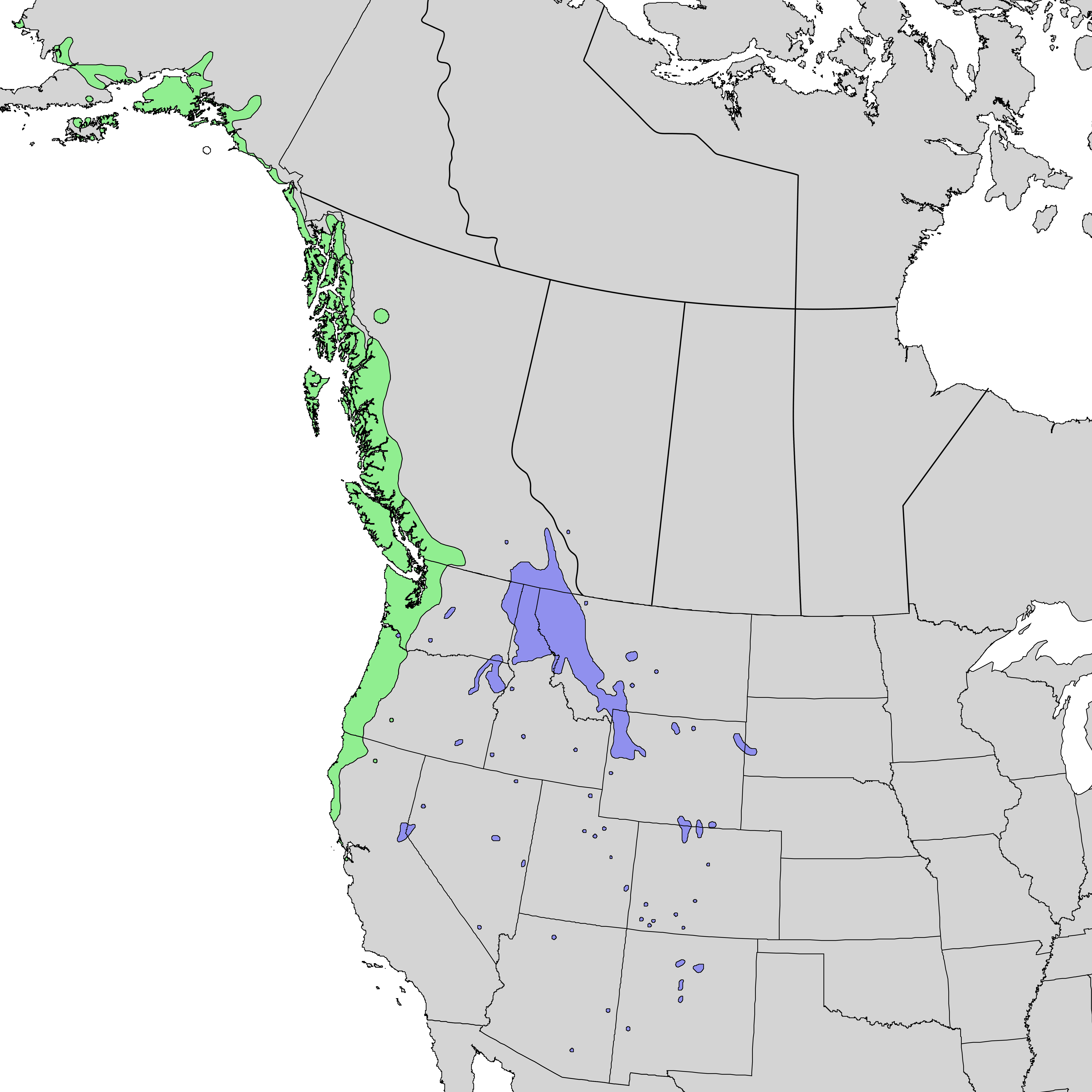 Natural distribution map for Sambucus racemosa var. melanocarpa (blackbead elder, shaded blue) and Sambucus racemosa var. racemosa (Pacific red elder, shaded green)